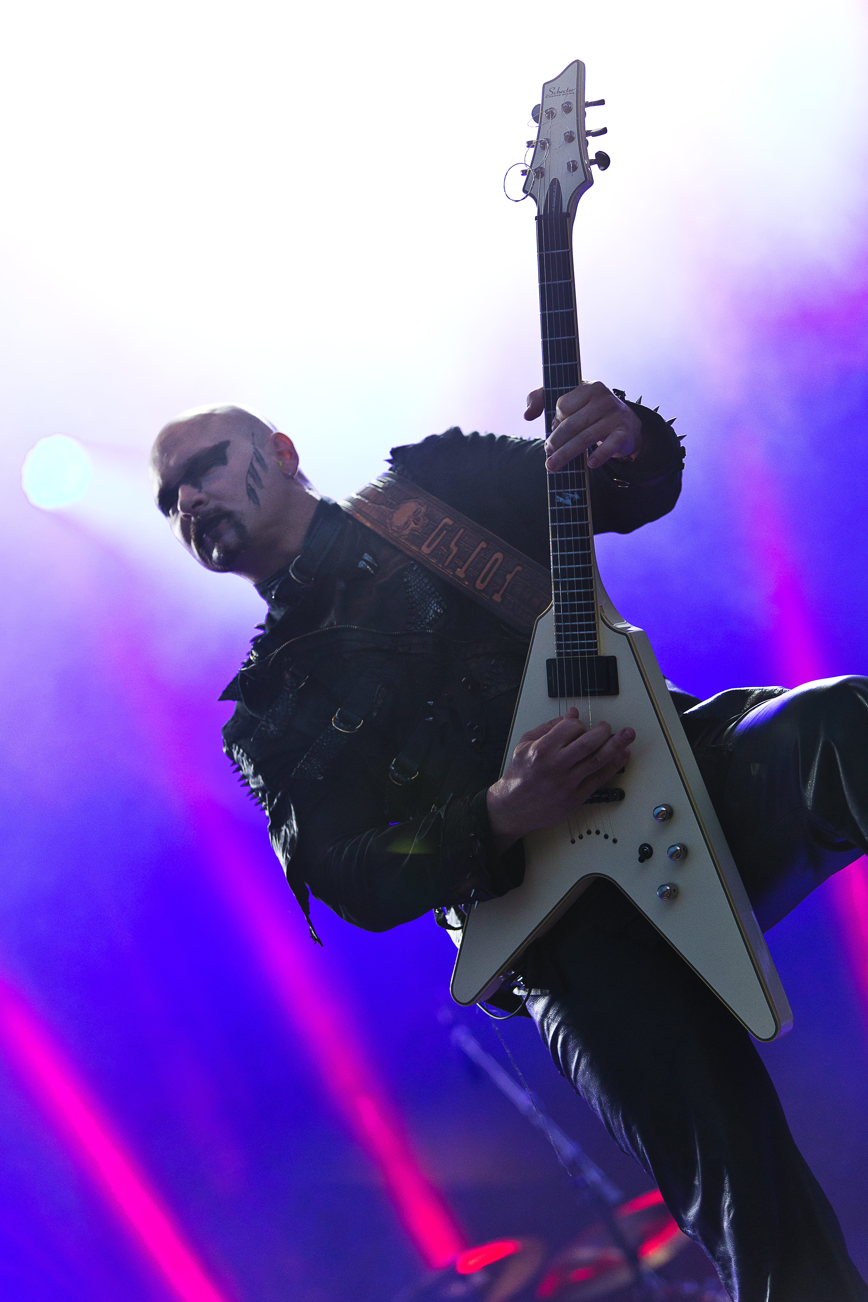 The British metal band Cradle of Filth at the Rockharz Open Air 2015 in Ballenstedt/Germany.